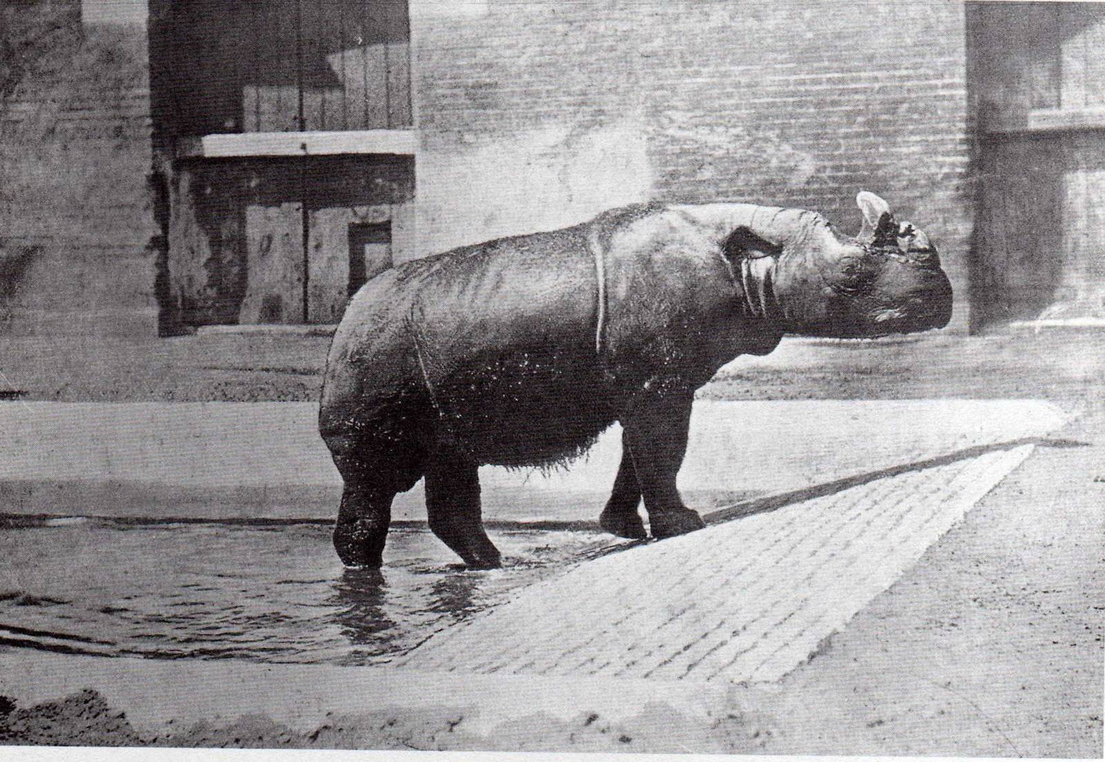 Begum, the female type-specimen of Dicerorhinus sumatrensis lasiotis, London Zoo.[1]